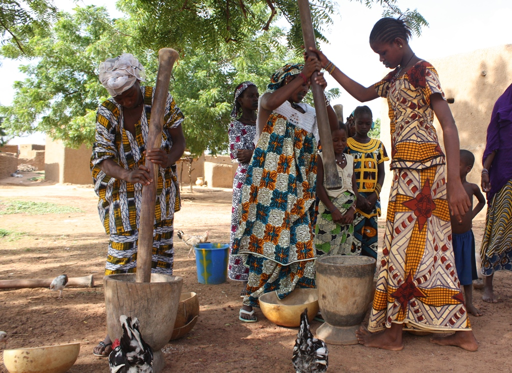 African Waxprints, West Africa (Une Campagne du Mali)